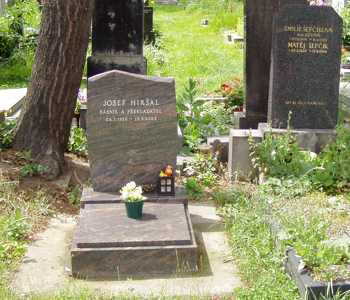 grave of the Czech poet and translater in Prague